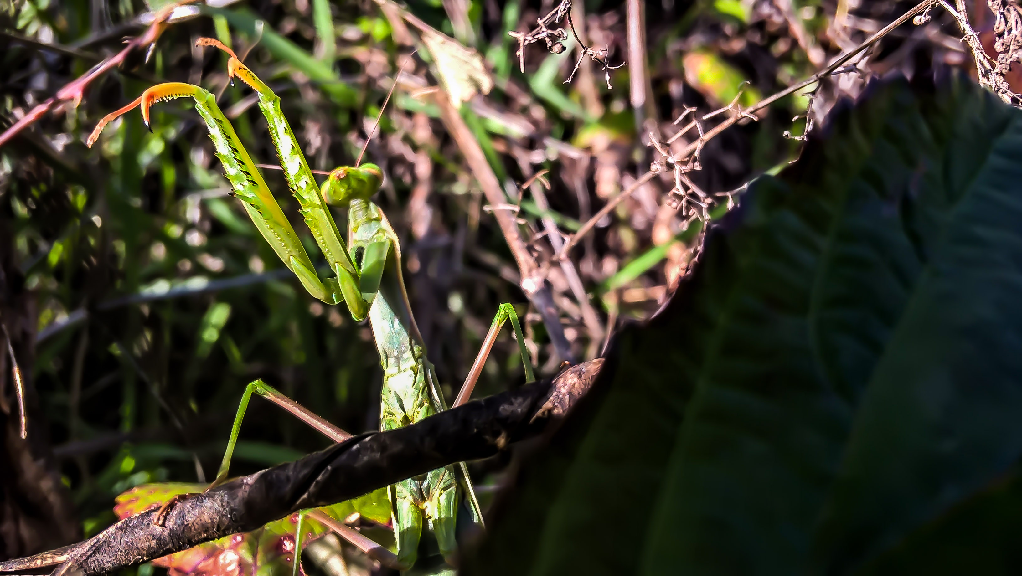 A big green Mantis religiosa founded in Tuscany. It stopped and it posed for me, it seemed that it wants some photos. In this one it was threatening to me. Mantises are distributed worldwide in temperate and tropical habitats. They have triangular heads with bulging eyes supported on flexible necks. Their elongated bodies may or may not have wings, but all have fore legs that are greatly enlarged and adapted for catching and gripping prey; their upright posture, while remaining stationary with fore arms folded, has led to the name praying mantises.